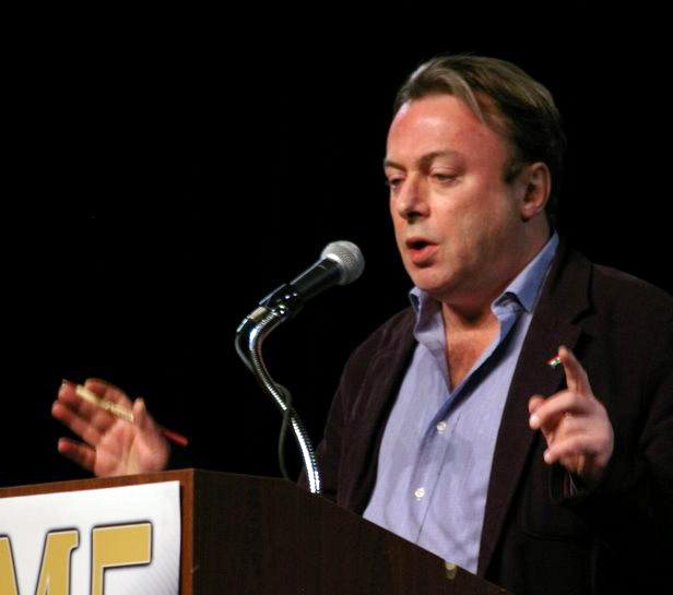 Christopher Hitchens speaking at The Amaz!ng Meeting held at the Riviera Hotel, Las Vegas, Nevada